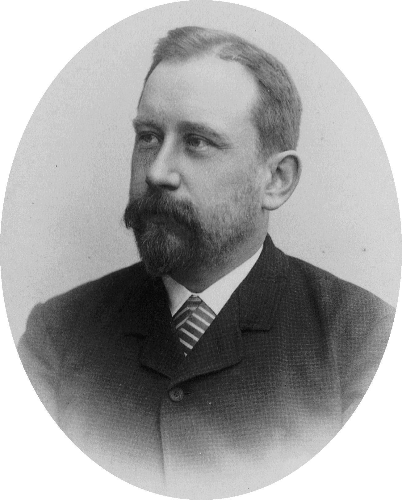 Image scanned from the book "Svenskt Porträttgalleri XX - Arkitekter, Bildhuggare, Målare m.fl. " ("Swedish Portrait Gallery XX - Architects, Sculptors, Painters, ") published 1901